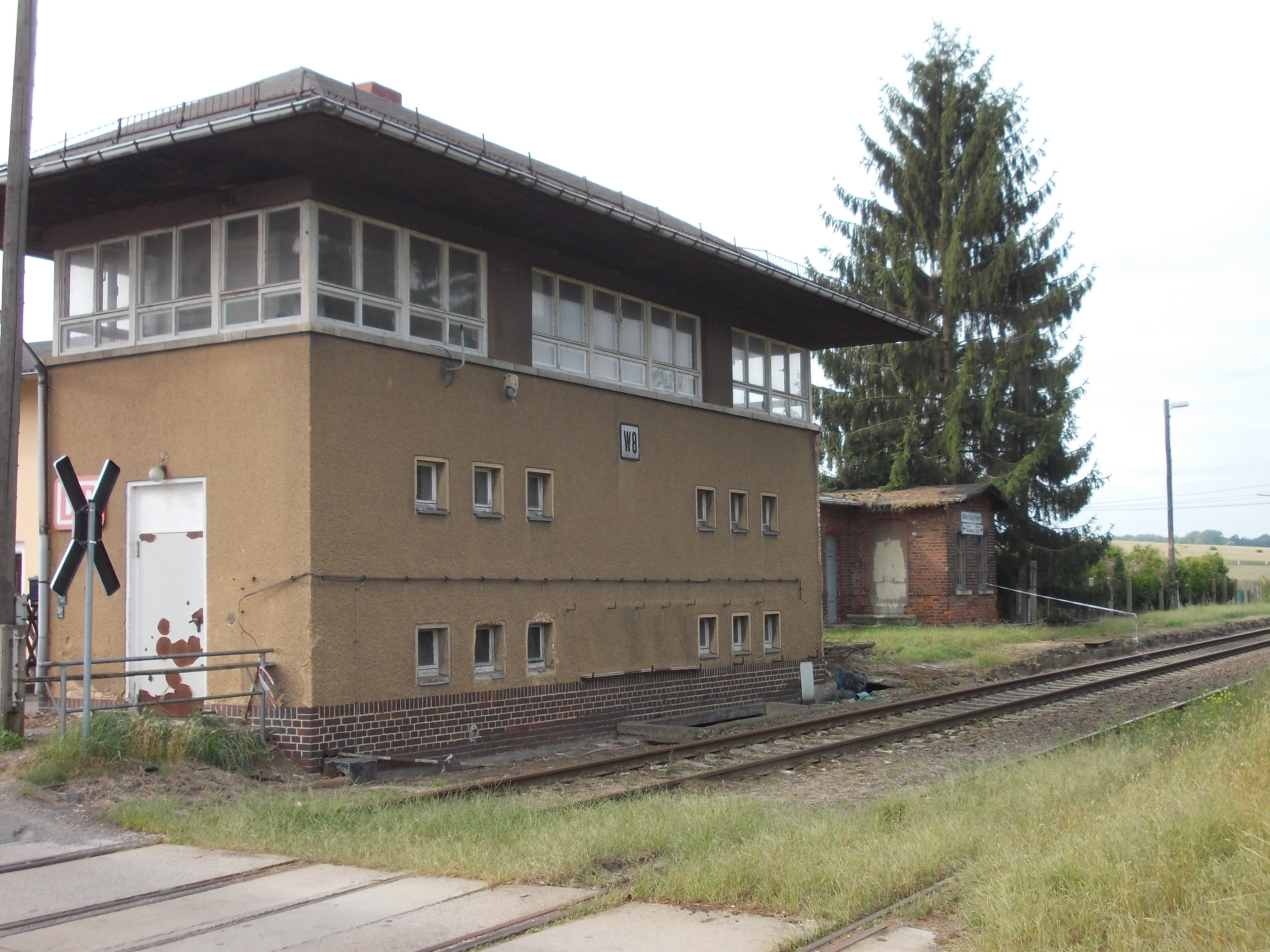 Altenburg Nord train station (Thuringia) at the Altenburg-Zeitz railway line